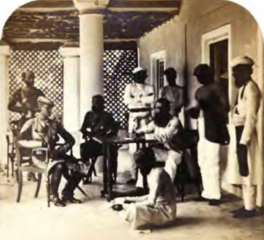 Commanding Officer of the Hyderabad Contingent (seated with beard), in the back the police chief of Hyderabad (white shirt, standing). Showing extremely well where the true power lay in Indian princely states during colonial times.